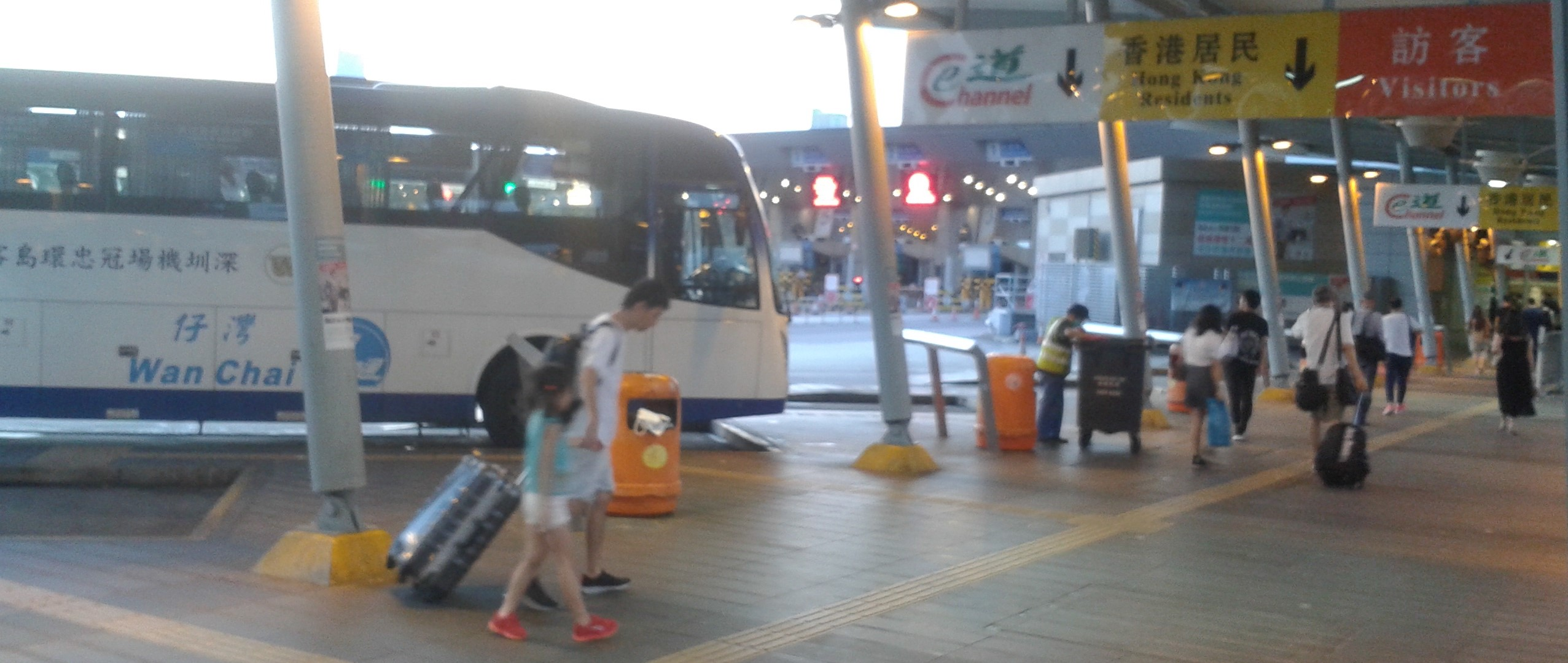 The Bus from Wan Chai dropped off passengers at Lok Ma Chau Checkpoint who then walk through passport control and customs before crossing to Huanggang Checkpoint in Shenzhen.